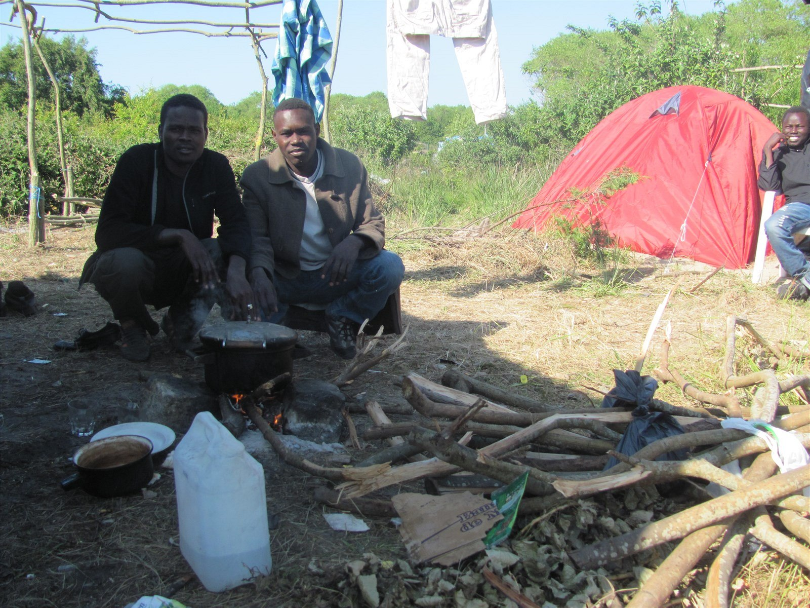 Sudanese migrants in "The Jungle" refugee camp outside Calais, 18th June 2015. Originally published at iDNES.cz